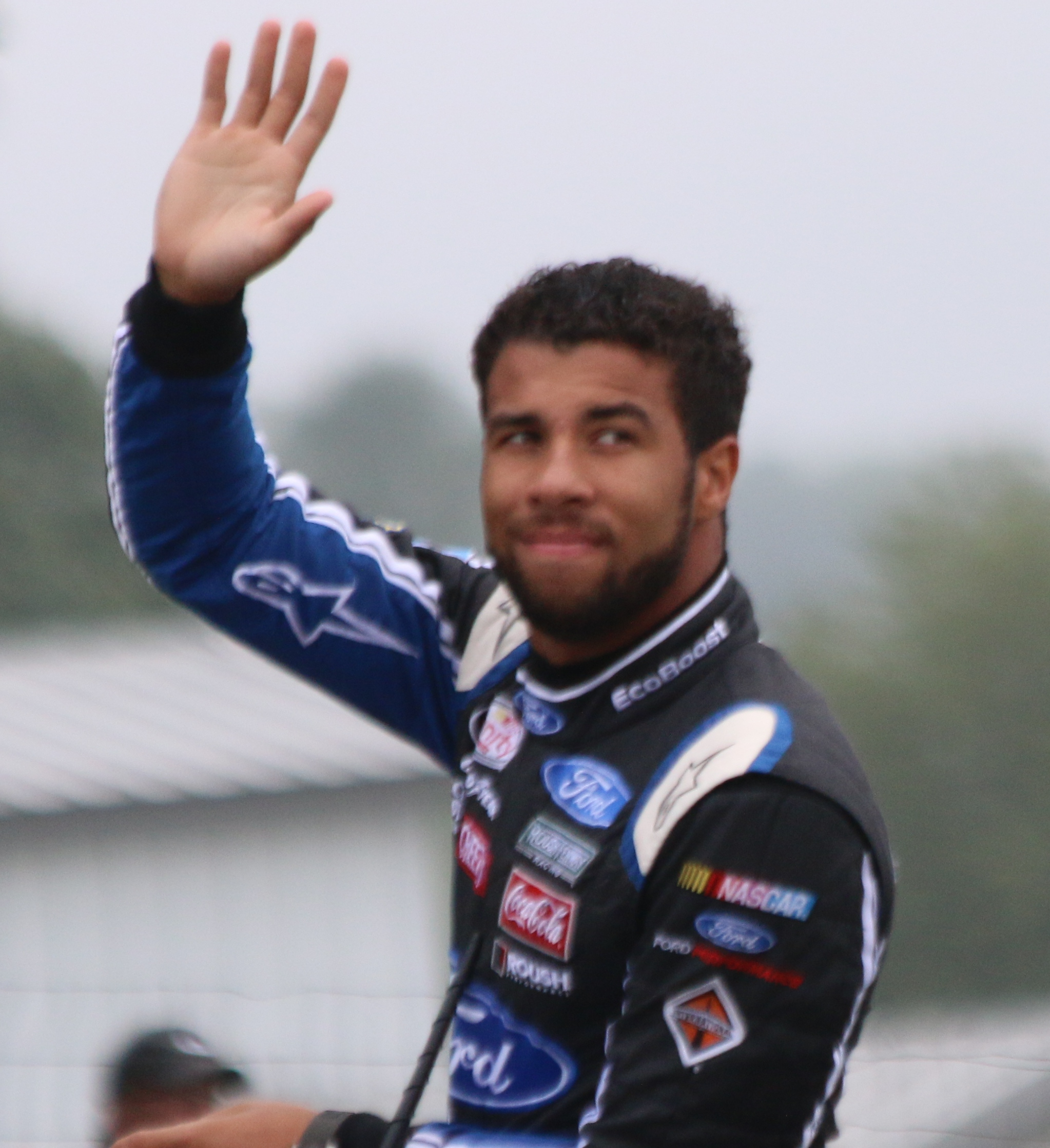 NASCAR driver Darrell "Bubba" Wallace Jr. at the Road America 180.